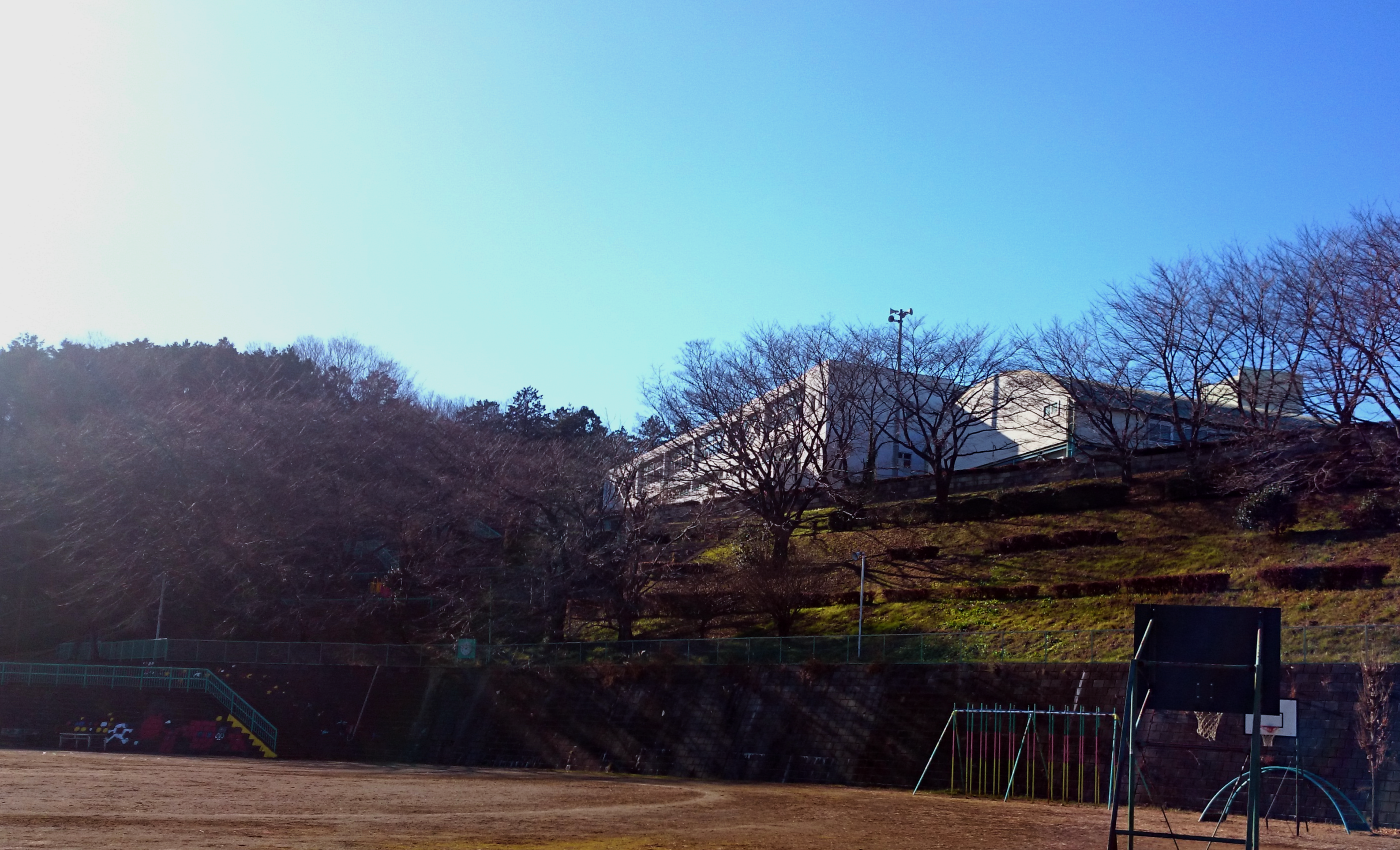 Old building and schoolyard of Shiroyama Elementary School (Sakado-shi, Saitama, Japan)